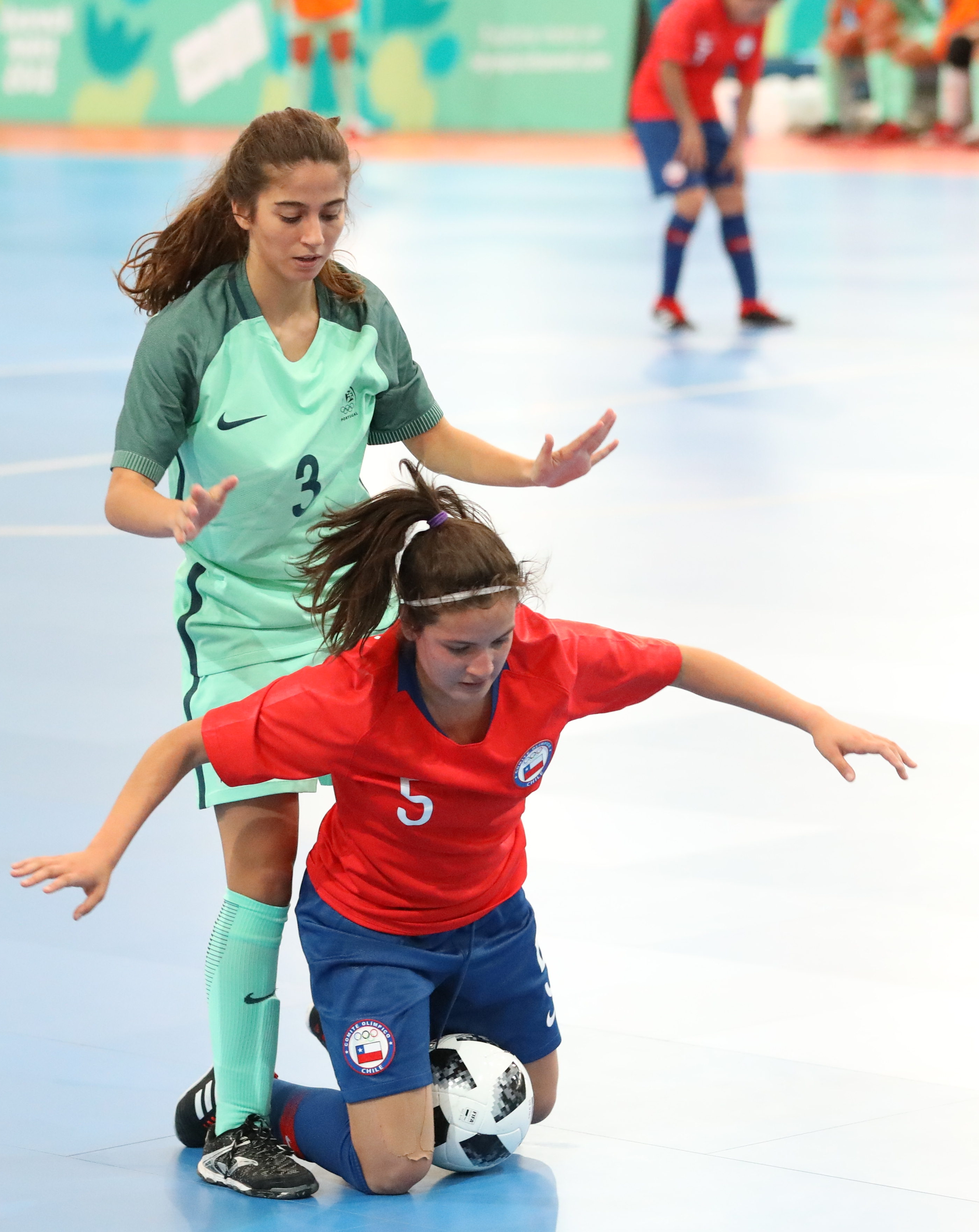 Futsal, Girls First Round: Chile vs. Portugal (2:15)